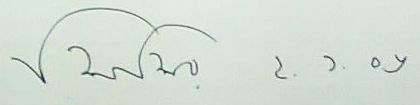 Autograph of renowned Bangladeshi artist, painter, cartoonist Shishir Bhattacharjee. Collected during the "Art Appreciation Course 2005", at the Bishwo Shahitto Kendro, Dhaka, Bangladesh